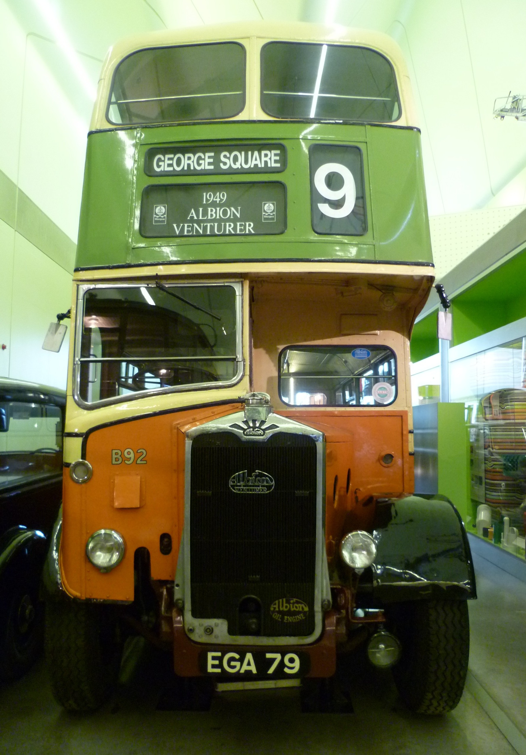 Albion Venturer, built in 1949, in Glasgow's Riverside Museum